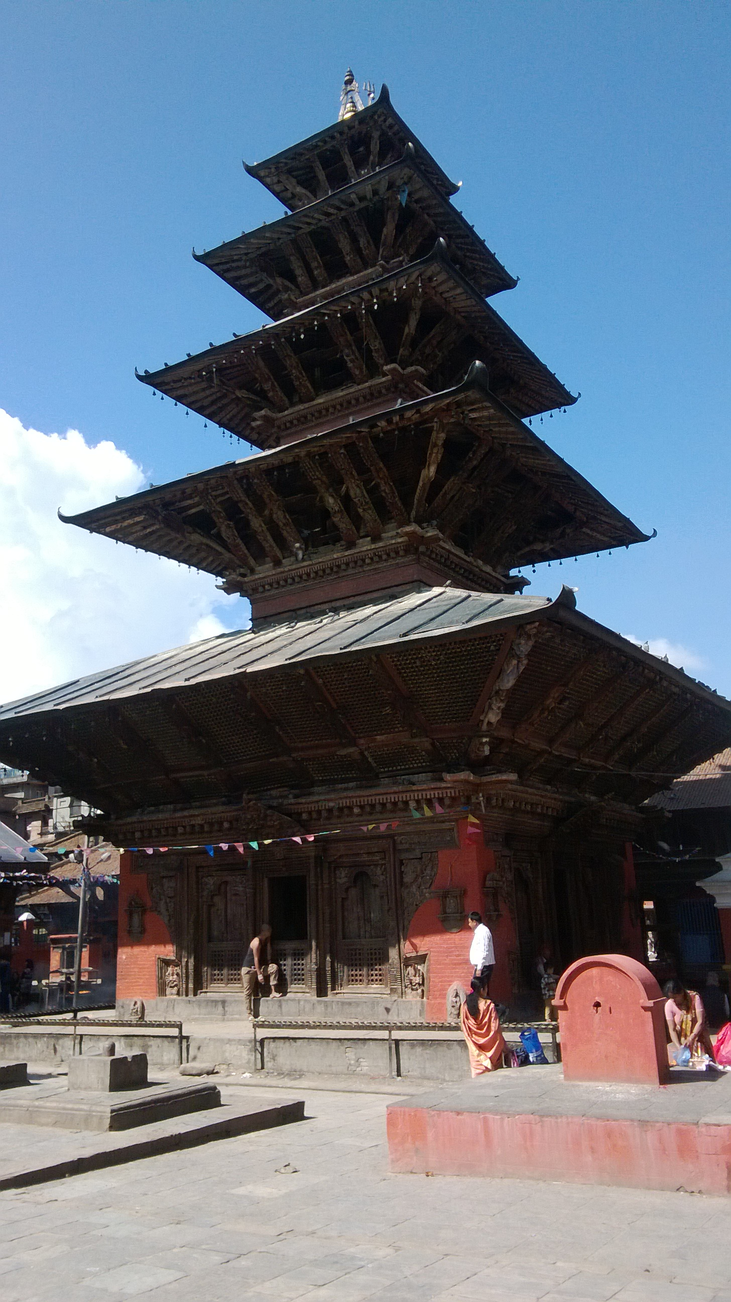 Kumbheswor temple in Lalitpur District of Nepal.